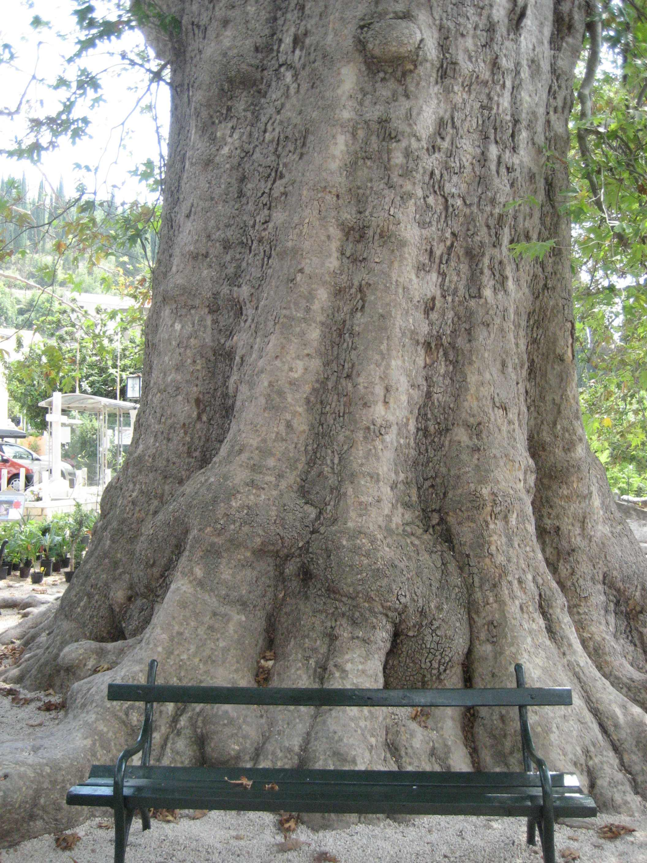 Oriental Plane in Trsteno, near Dubrovnik, Croatia